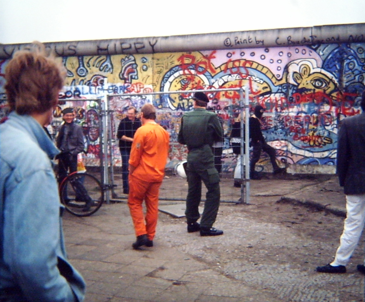 Checkpoint to Kubat-Dreieck - Potsdamer Platz, Berlin, June 1988